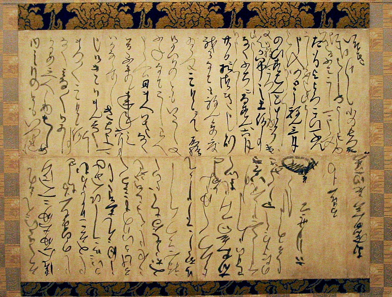 Letter of Hasekura to his son, during his stay in the Philippines. Personal photograph. Sendai Museum.